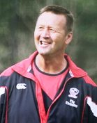 Ric Suggitt at 2013 World Cup